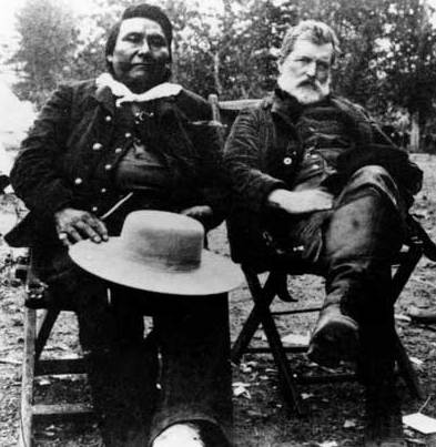 Former adversaries Chief Joseph and Col. John Gibbon met on the Big Hole Battlefield many years later.